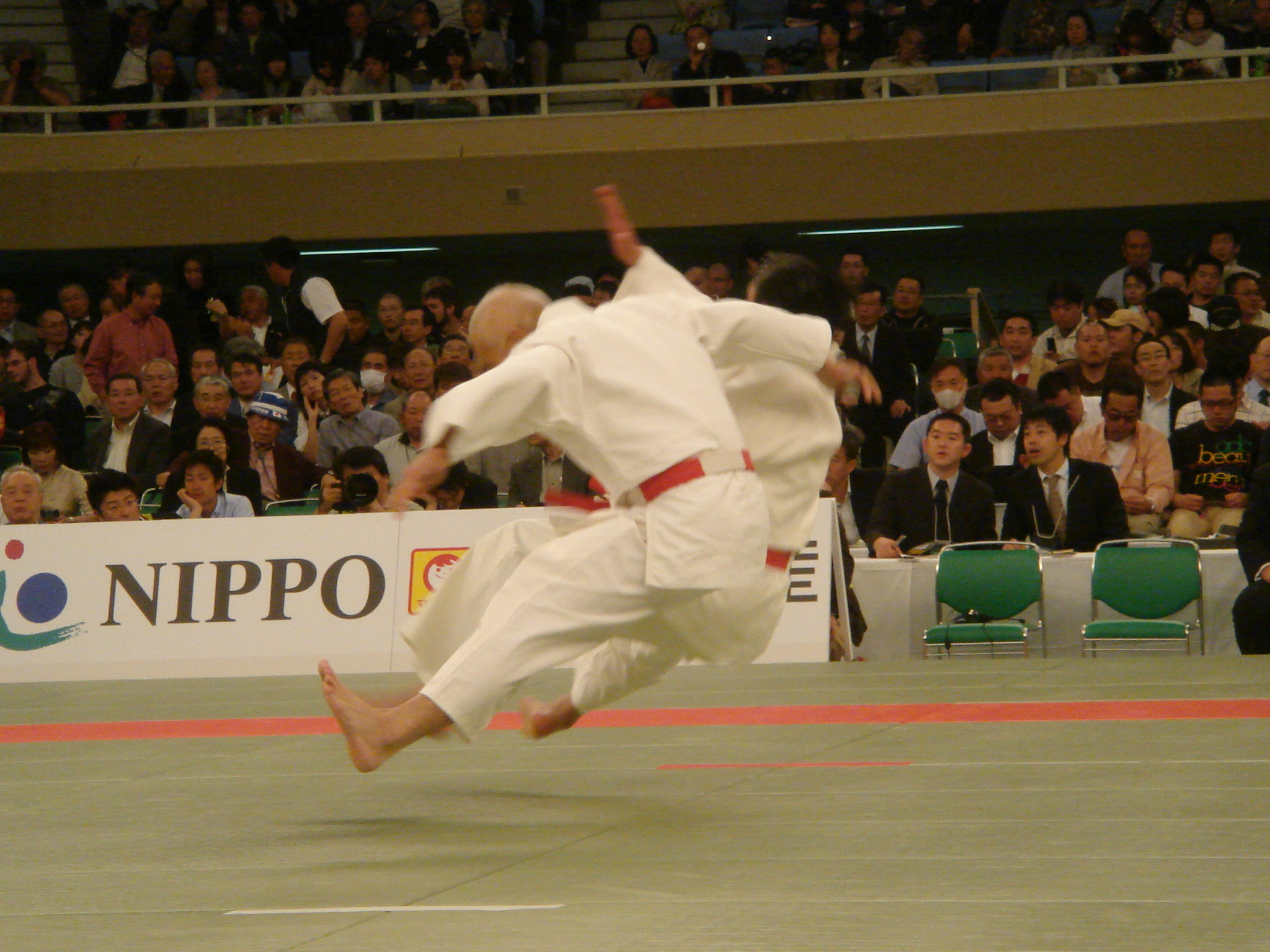 taken in all japan judo championship 2009 by myself